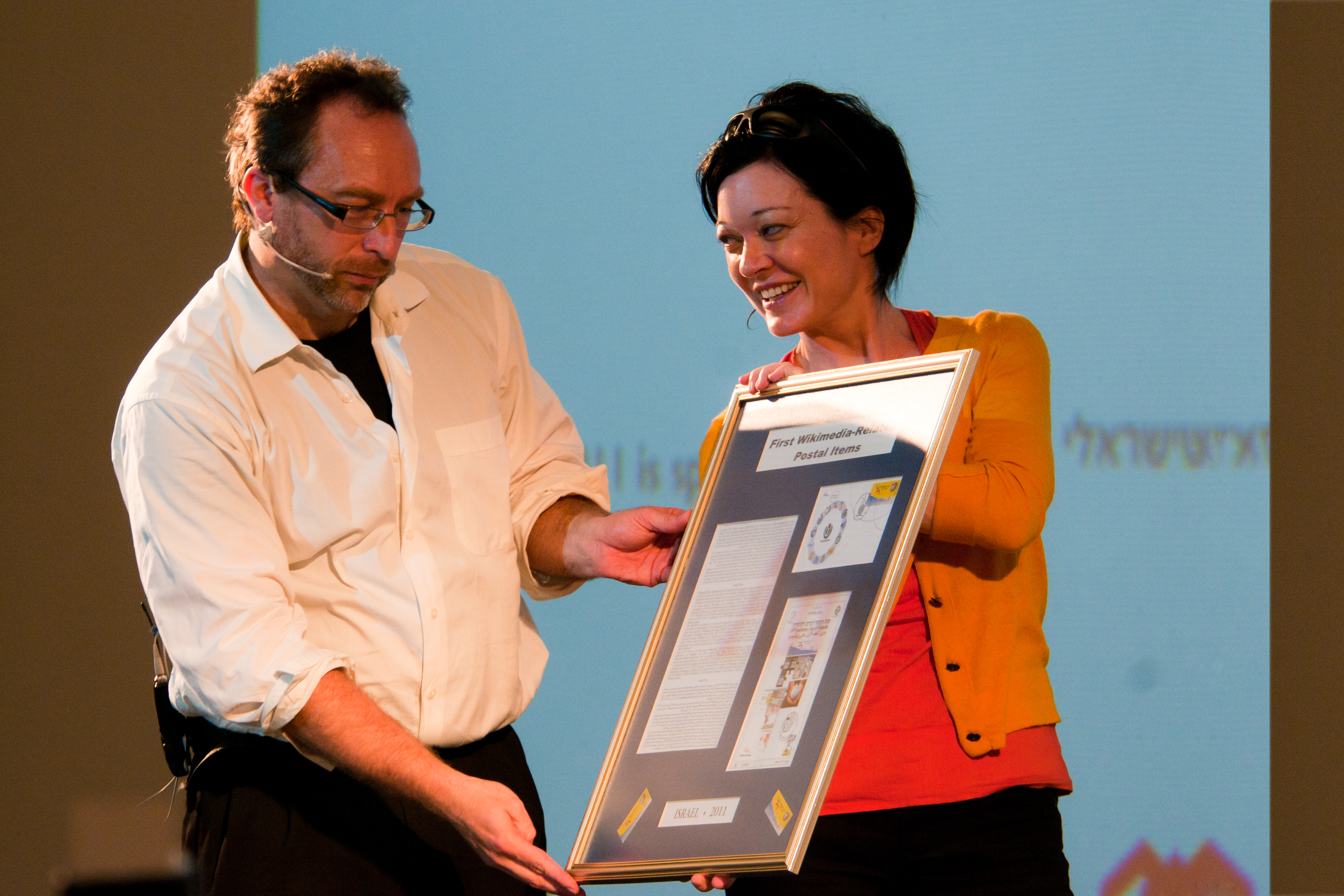 First Wikimedia-Related Postal Items